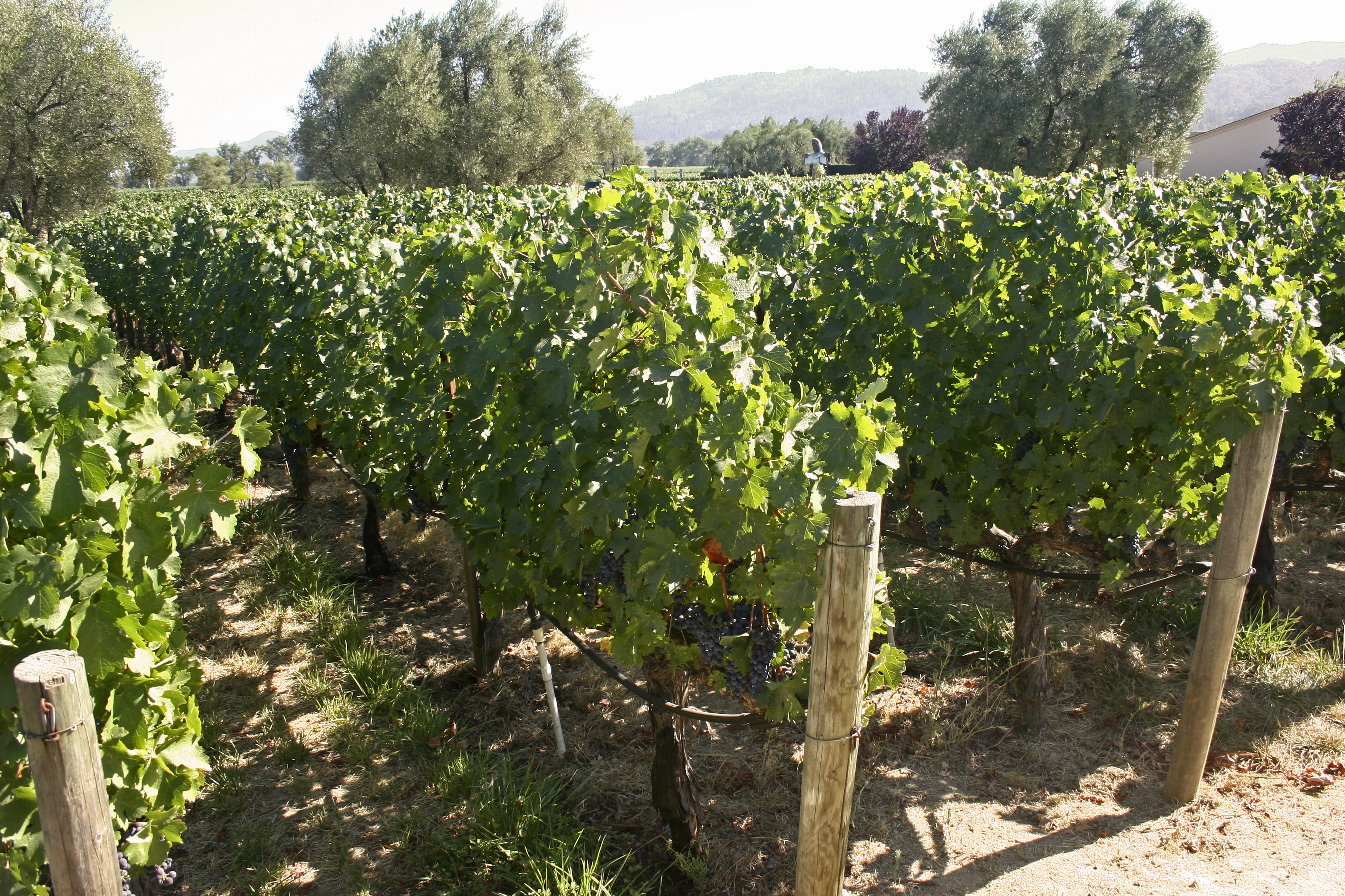 Grape Vineyard at Robert Mondavi Vineyard, Napa Valley, Oakville, California, USA